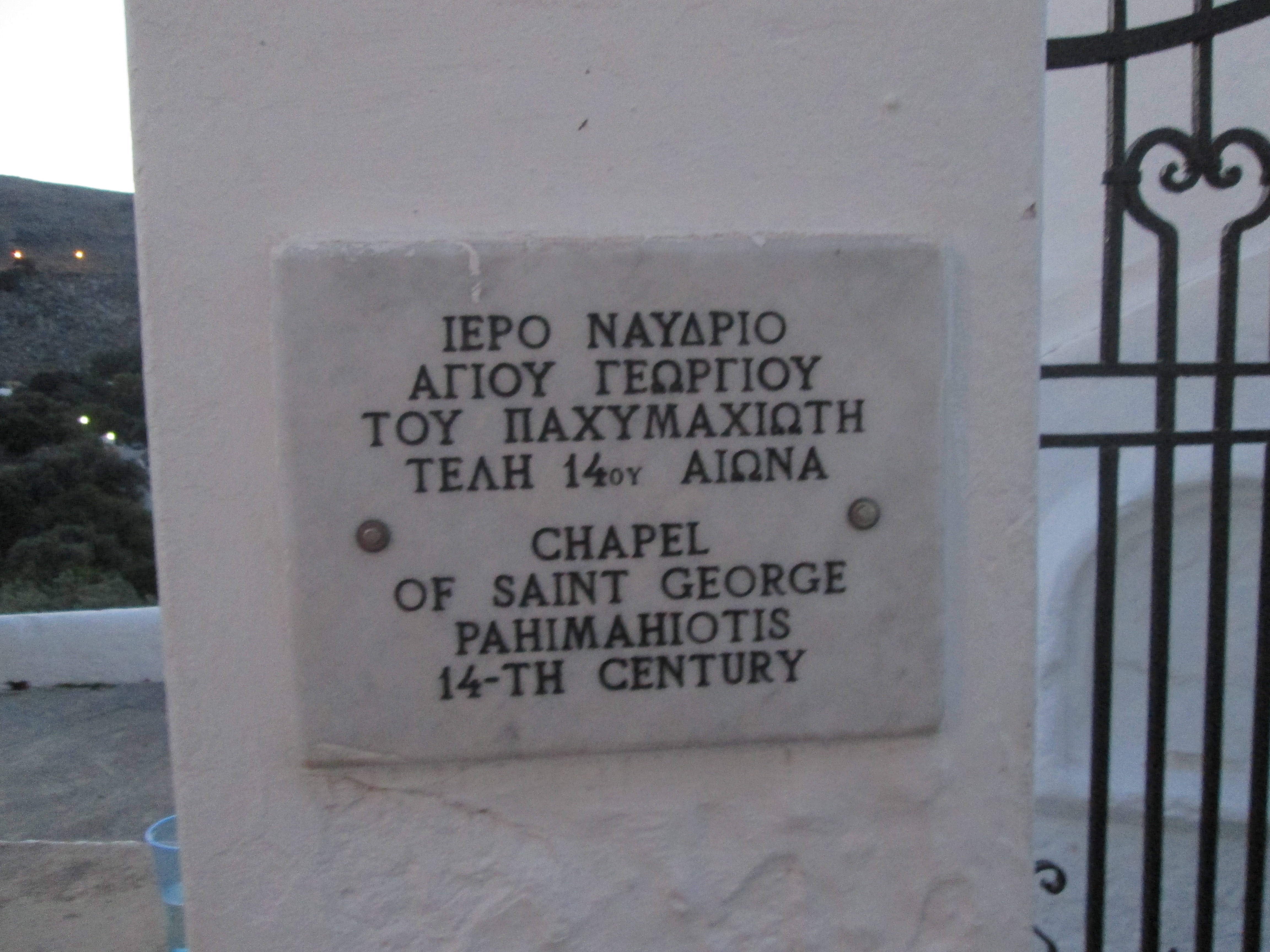 Plaque of the Chapel of Saint George in Lindos, Rhodes, Greece 14th Century